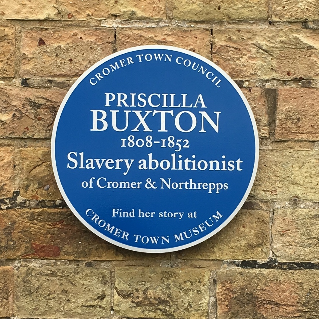 Cromer is the nearest town to Northrepps Hall, The Buxton / Gurney home.